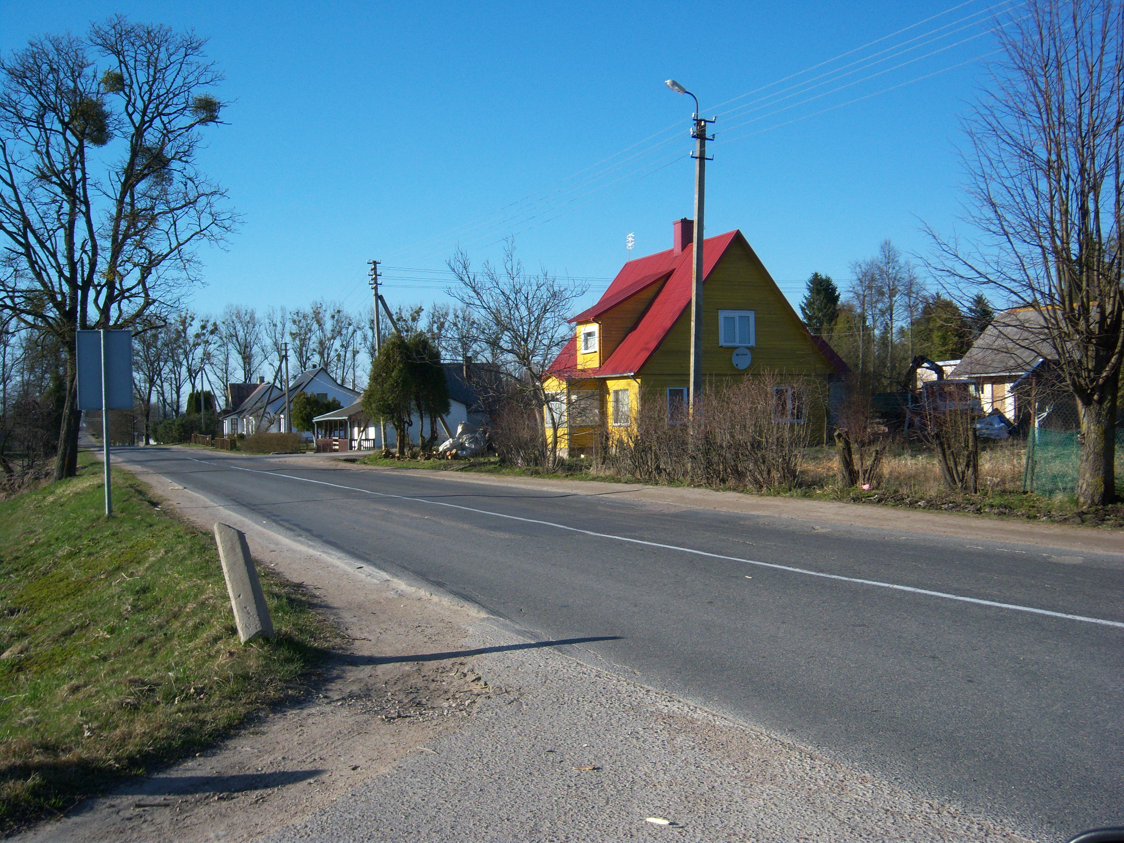 Skriaudžiai, Prienai district, Lithuania